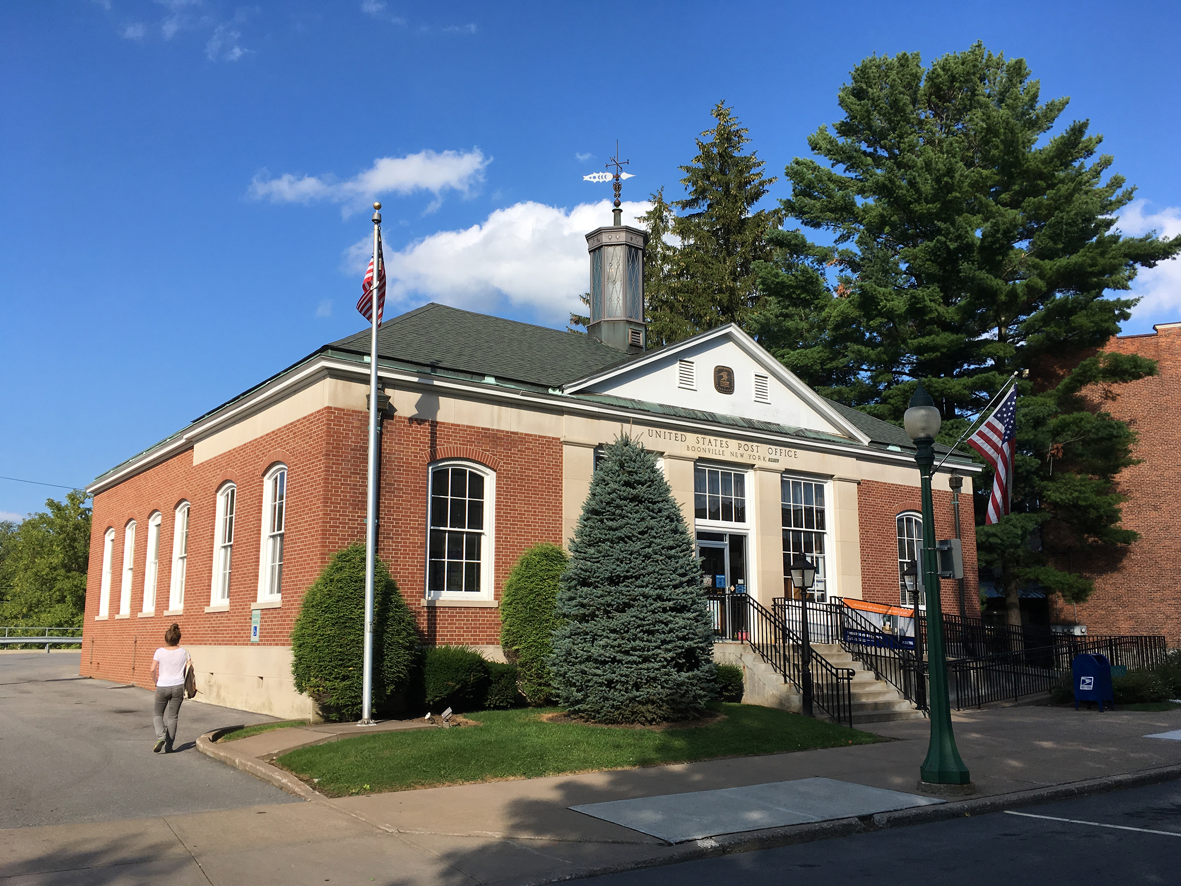 US Post Office, Boonville NY, August 2017